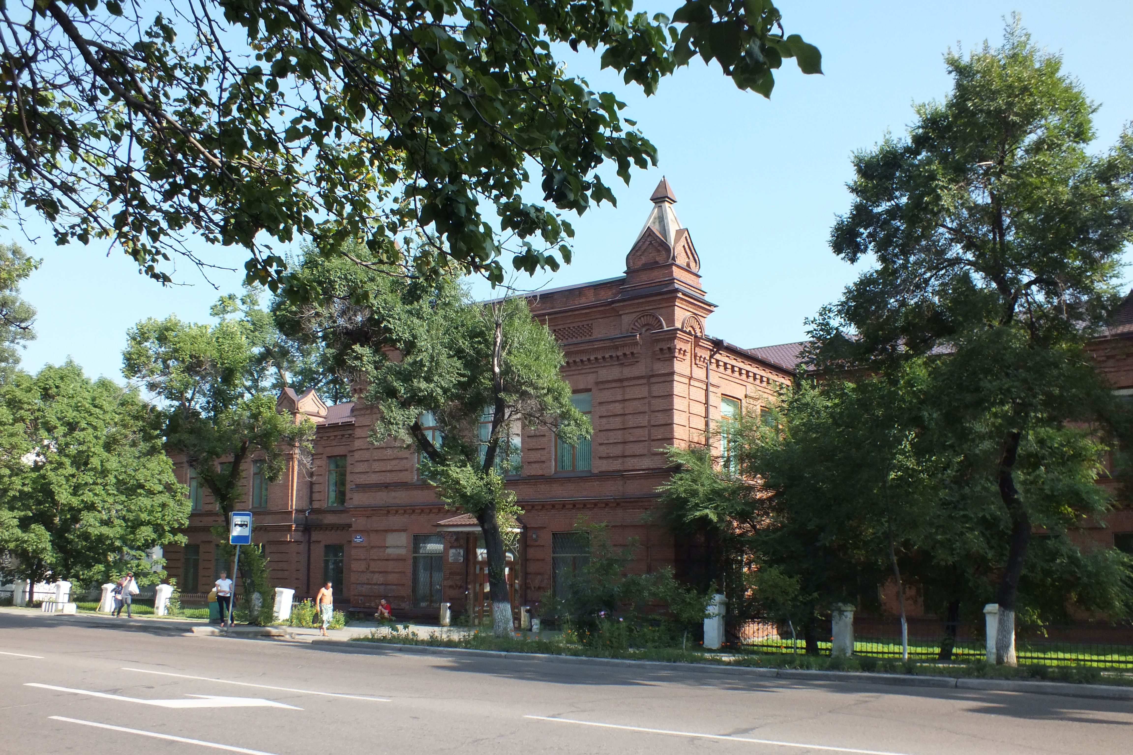 Ussuriysk